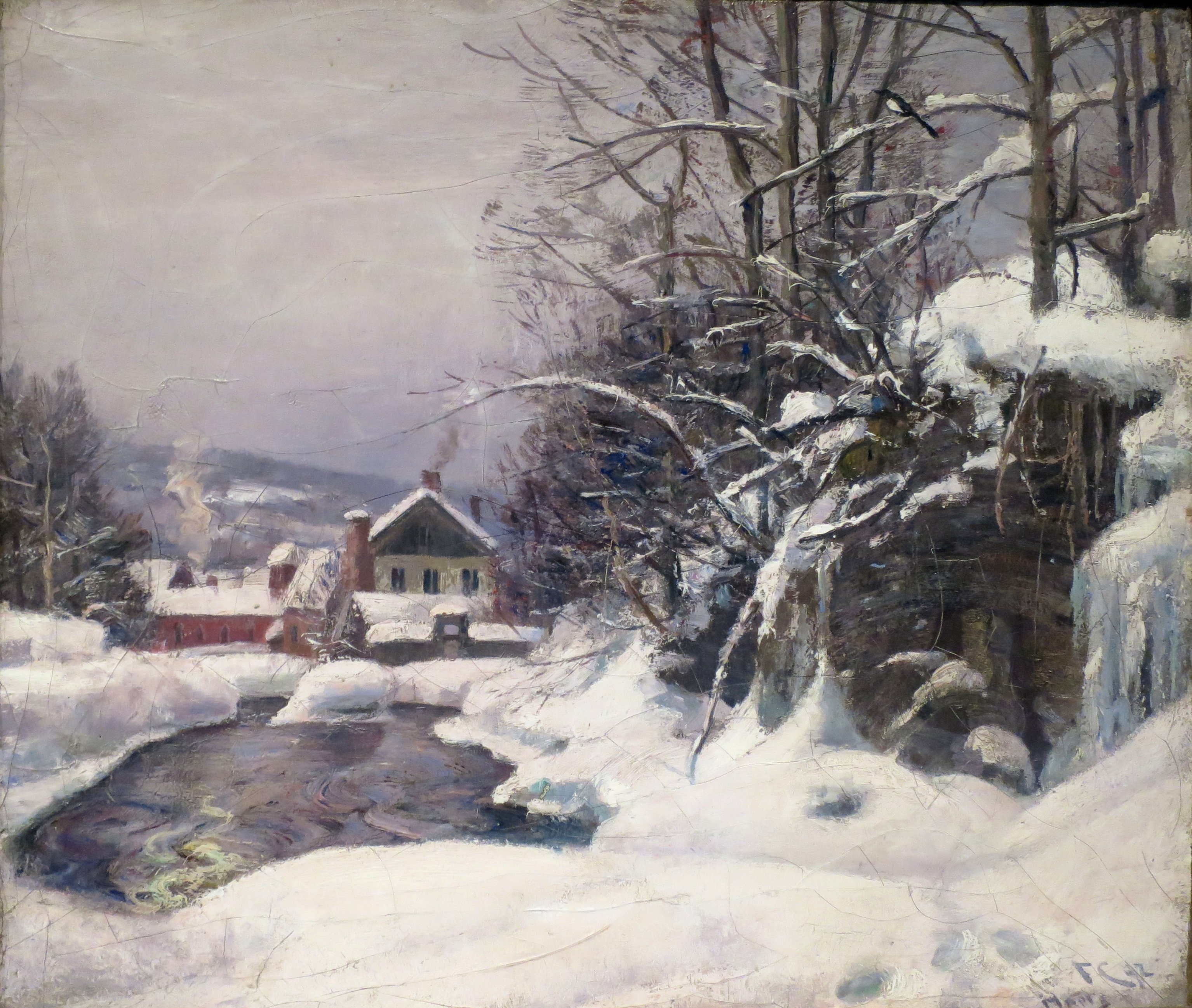 Winter, Mesna, 1892 by Frederik Collett, 1892, oil on canvas, Bergen Kunstmuseum